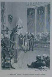 Benjamin Constant in the Tribunat